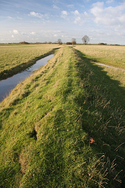 Stoney Camp bank and ditch Excavations by the British Museum in 1980 on a well-preserved section of bank suggest that the Romans deliberately destroyed some of the defences at Stonea. After that the earthworks survived untouched for nearly 2000 years.